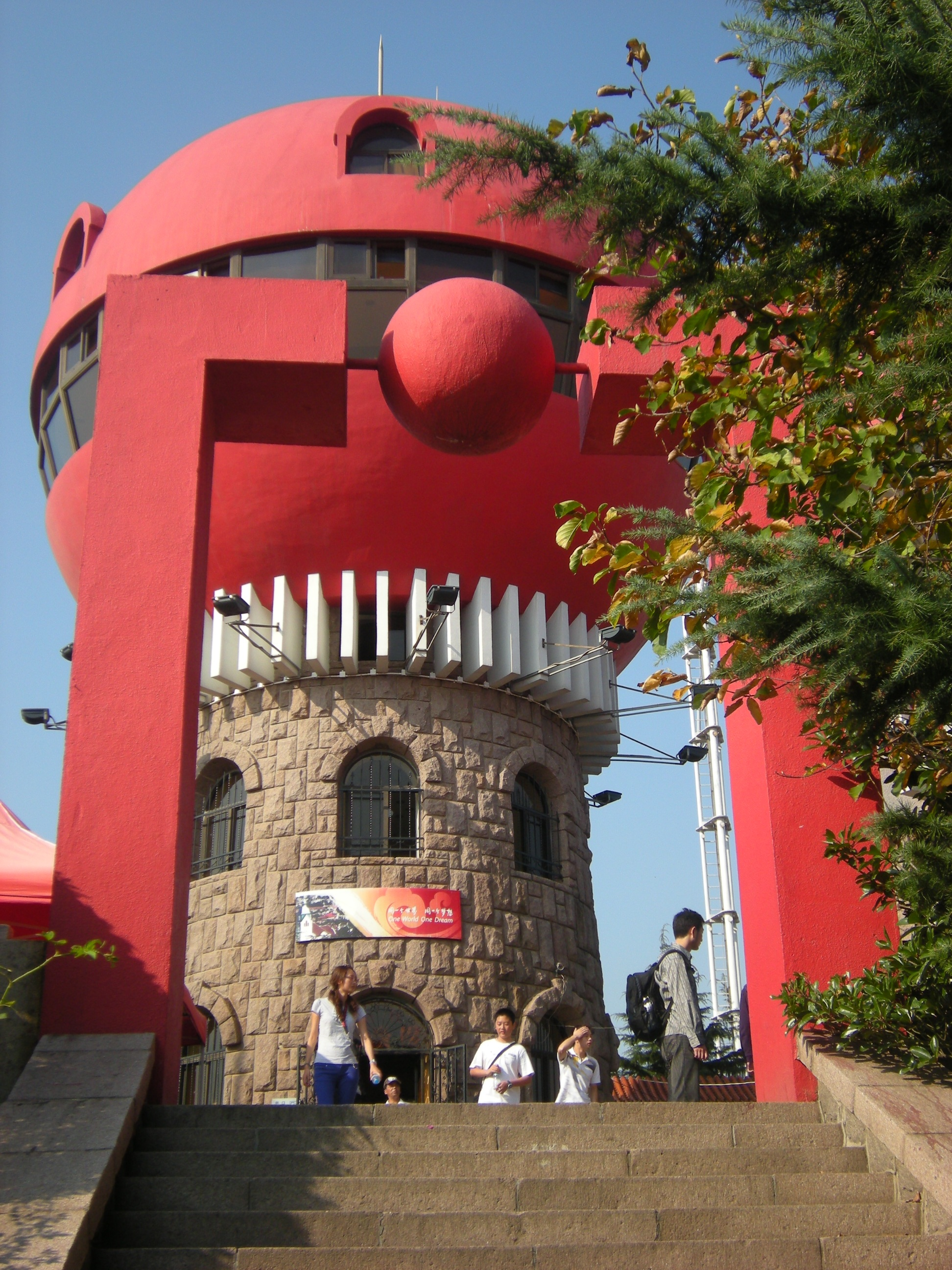 XinHaoShan Park of Qingdao